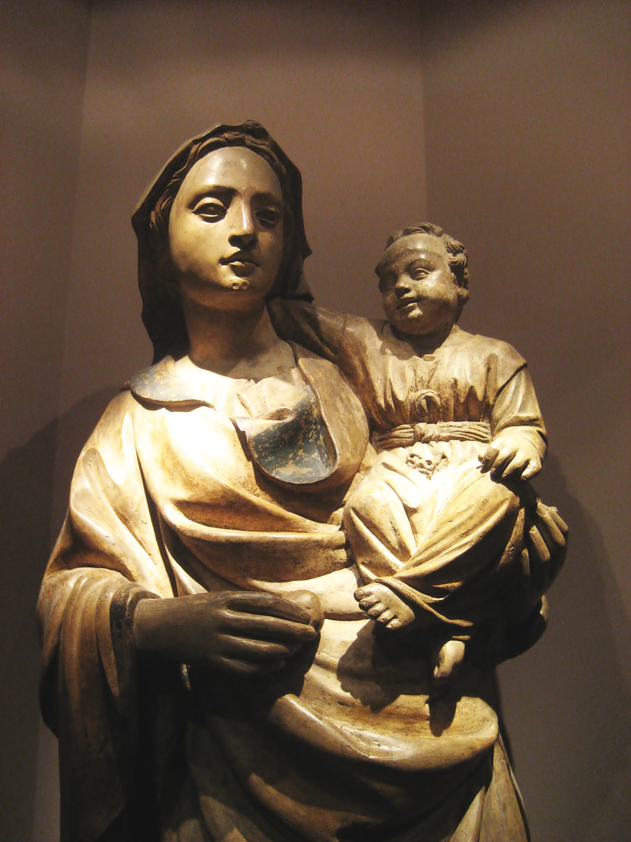 The Royal Ontario Museum displaying a mid-16th century statue of Mother Mary with accompanying baby Jesus. Image taken June 18th, 2007.